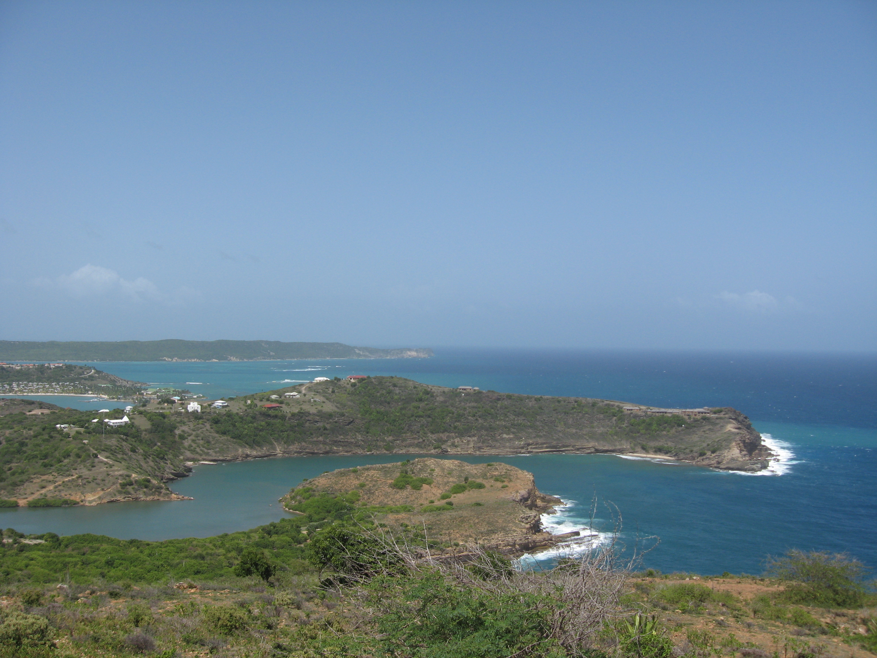 The shore in south Antigua.